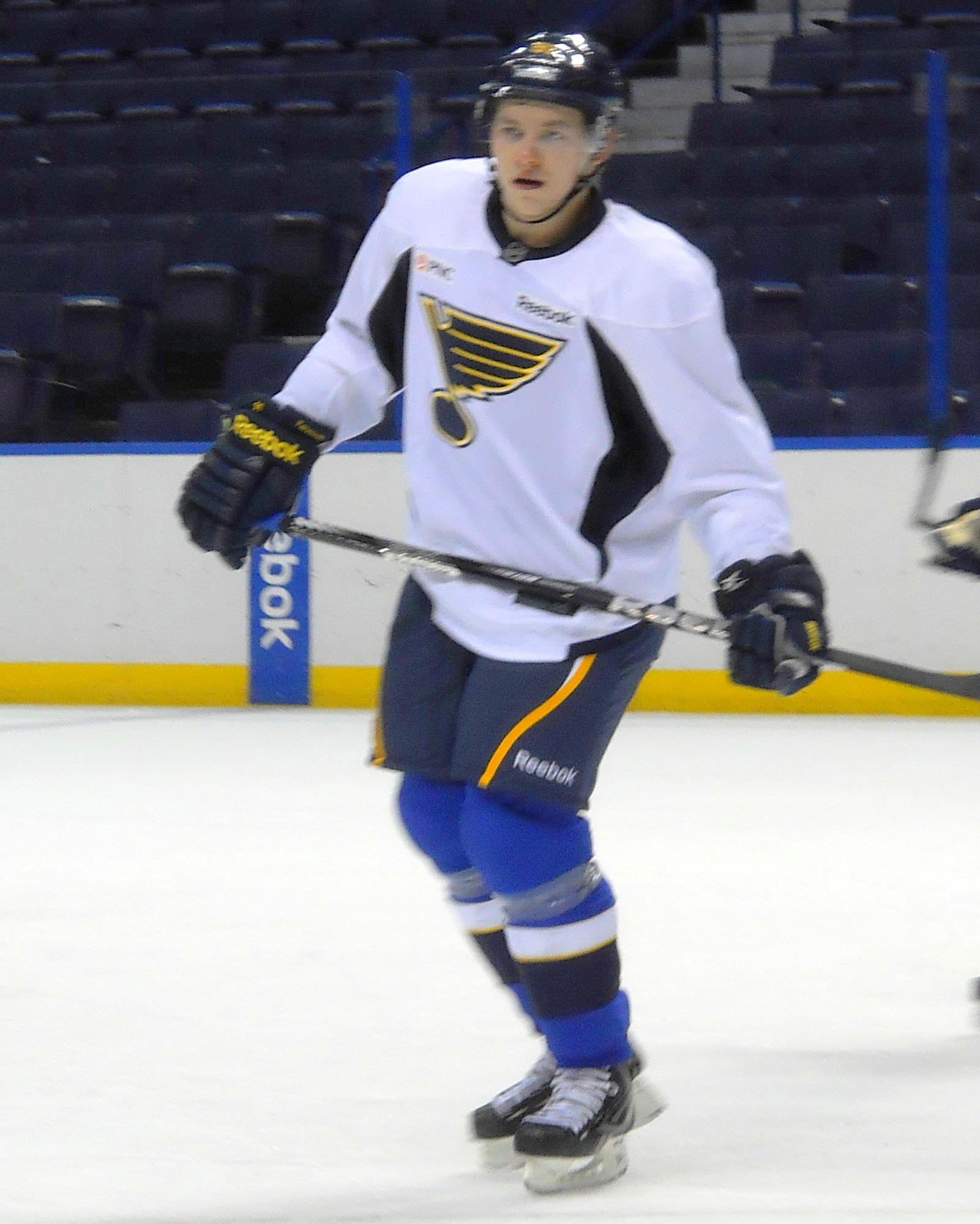 Vladimir Tarasenko with the St. Louis Blues in 2013